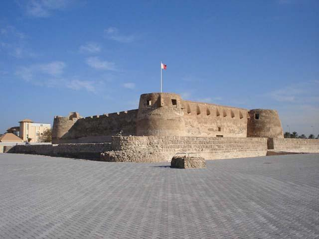 Arad Fort Photography: Shijaz Abdulla / Shijaz